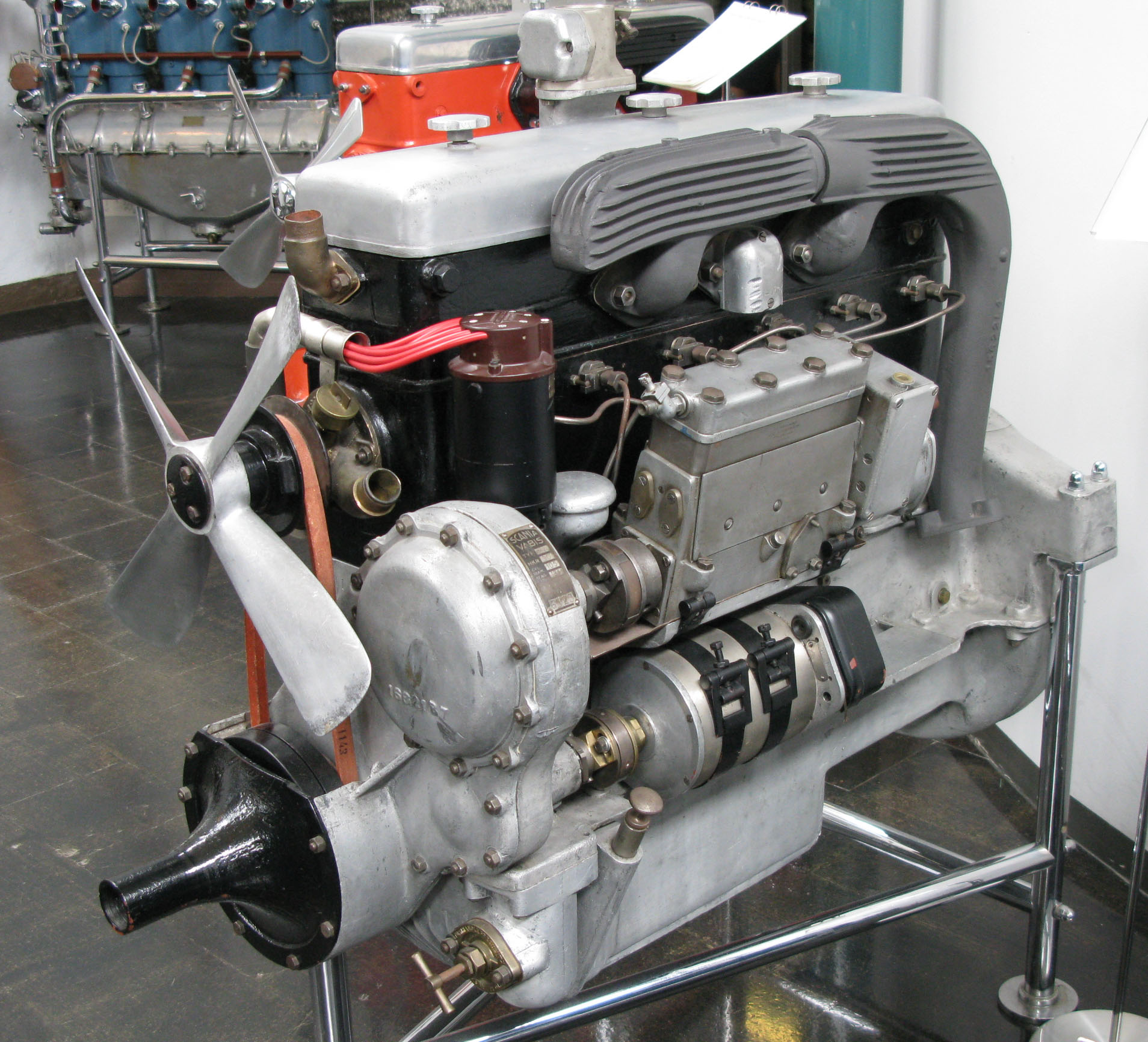 Scania-Vabis 15622 engine. Location: Scania Museum in Södertälje, Sweden.Six cylinder ohv Hesselman engine, in production 1933-36.